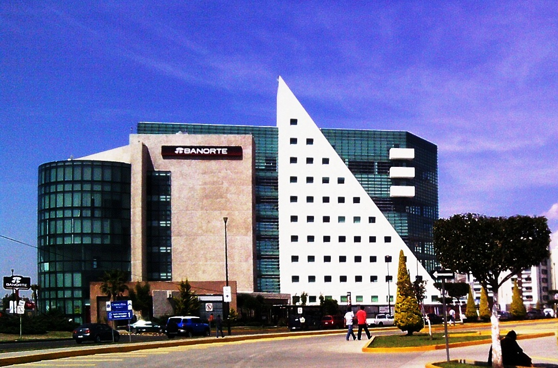 Bannorte Building (Edificio Banorte) and Prism Tower (Torre Prisma) in Silver Zone in the city of Pachuca, Hidalgo, Mexico.